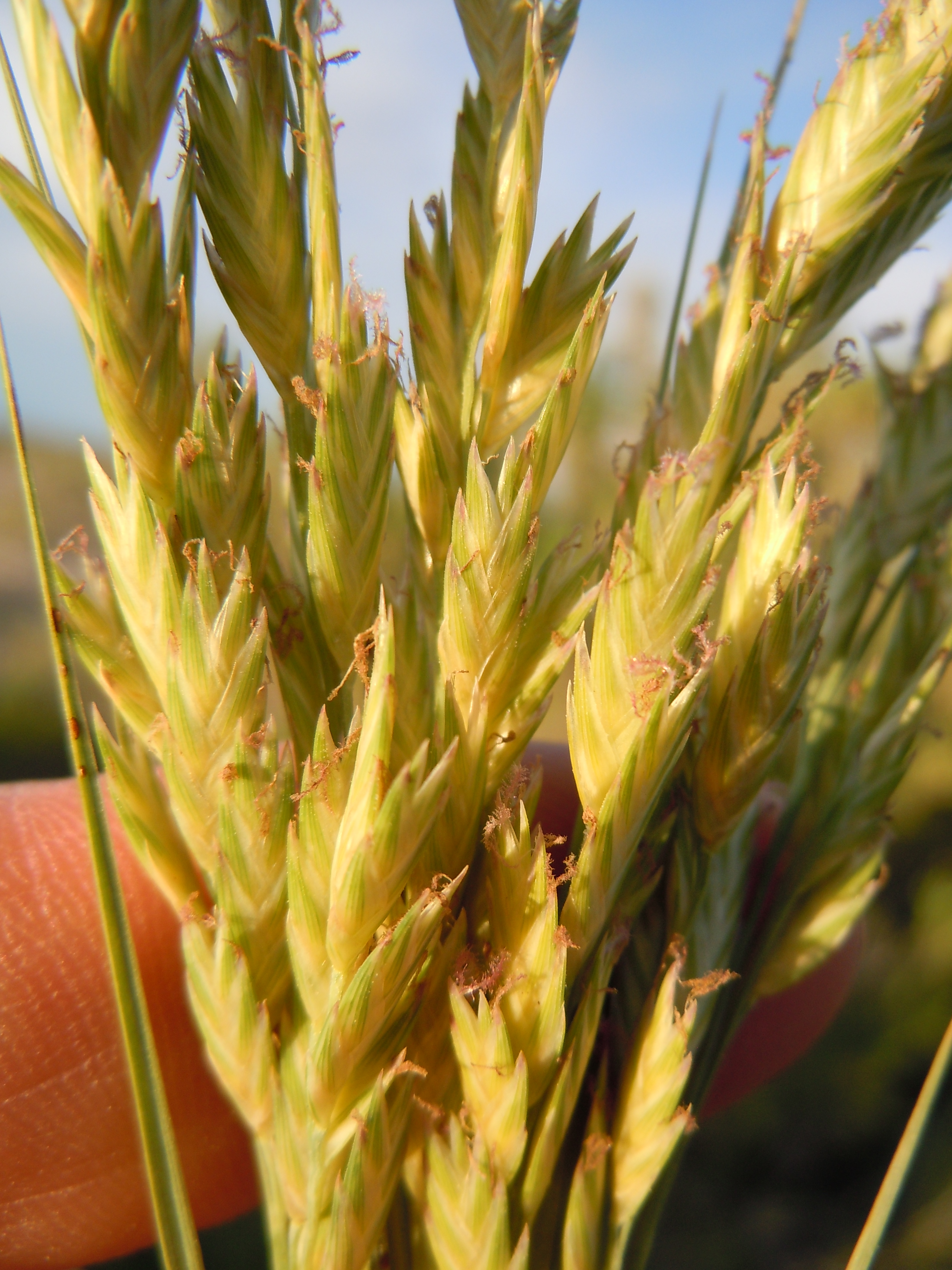 Pistillate spikelets with protruding purplish stigmas.